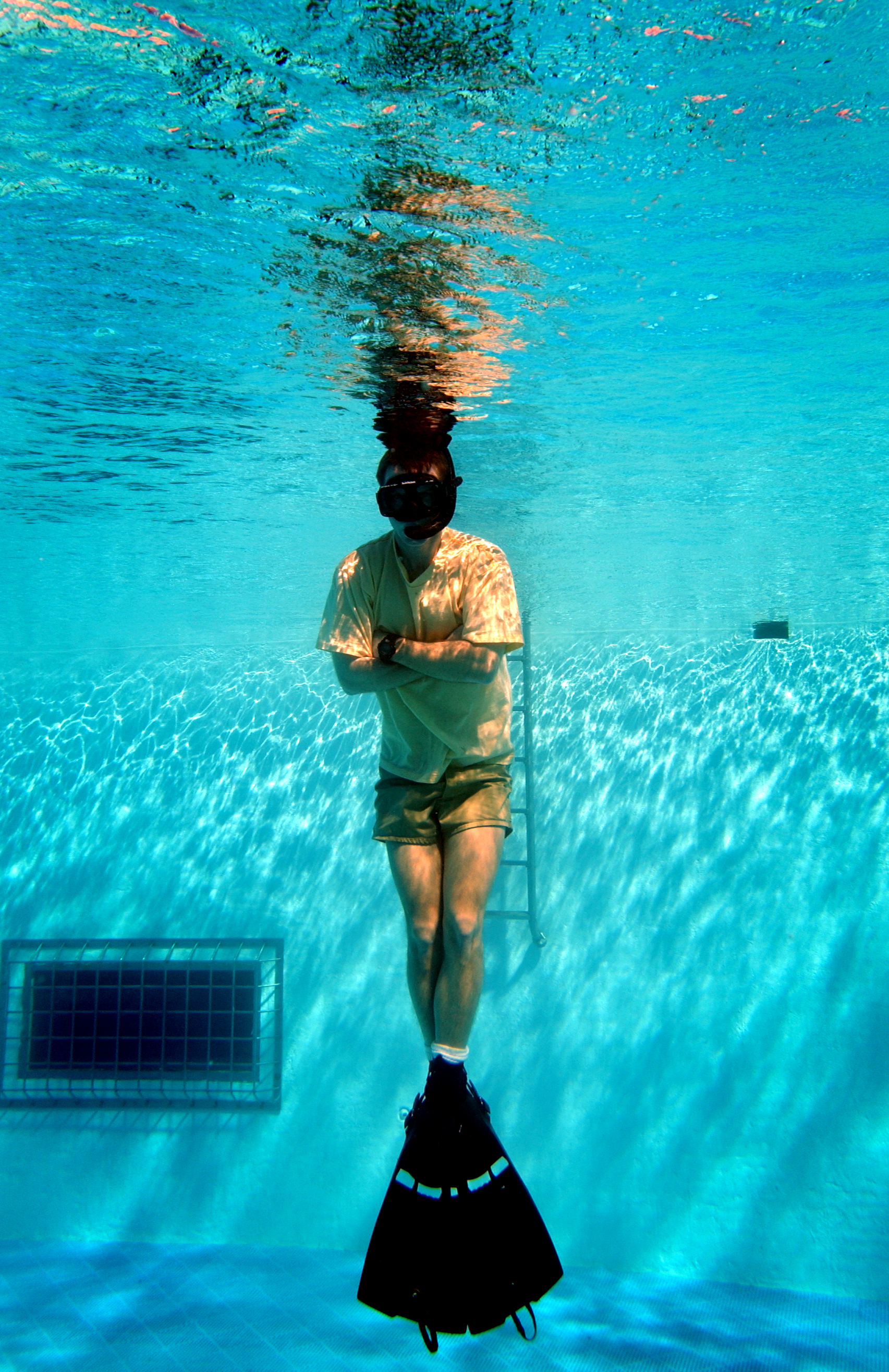 030123-N-6967M-127 EOD Instructor BM1 (EOD/SW/PJ) Travis Bivens hangs motionless as a safety observer during confidence training. (All Hands magazine photo by: PH1 (AW) Shane T. McCoy, June 2003, pg. 23. This photo was taken for, but did not appear in the magazine.)